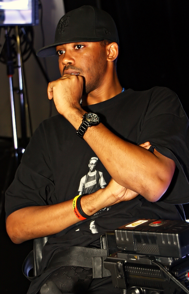 Photo of Christian Gabriel Macari Ledru